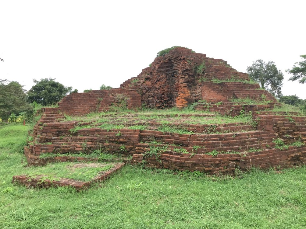 Pyu Ancient City In Myanmar UNESCO World Heritage Sri Ksetra